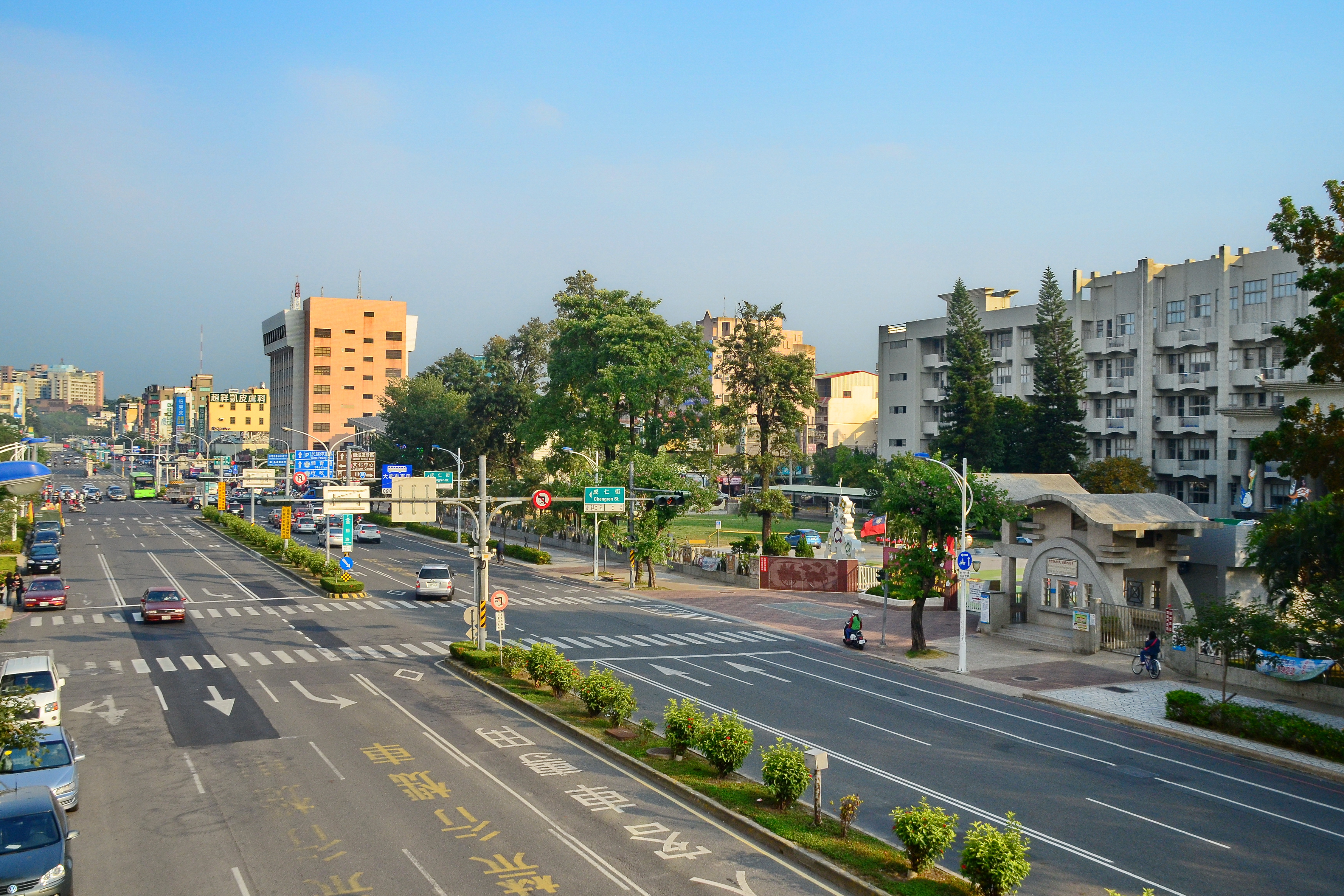 Chuiyang Road near Chengren Street, Chiayi City, Taiwan. The building on the right is Chung-Wen Elementary School.